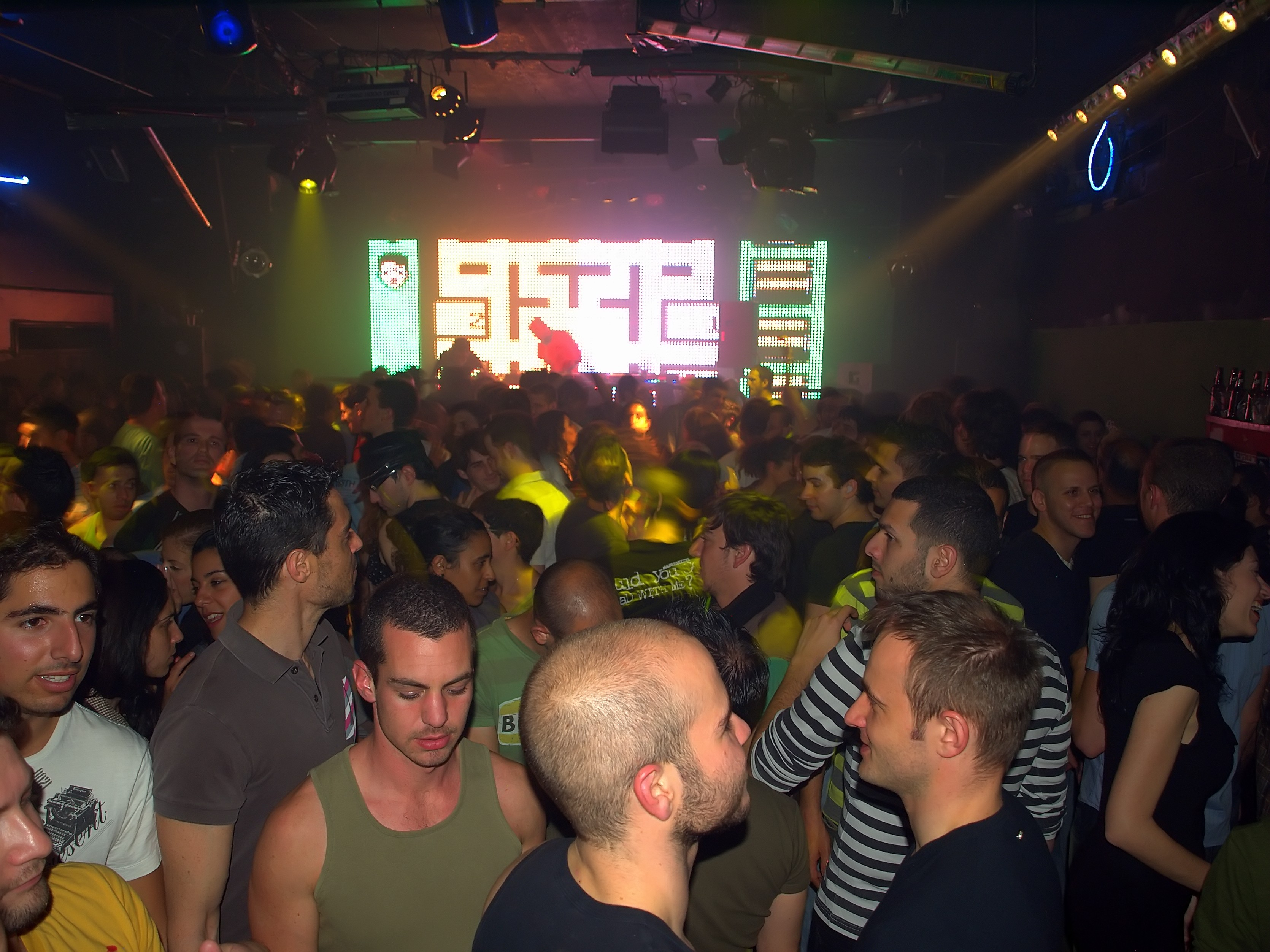 Tel Aviv, Israel gay nightclub Barzilay Venue during 1994 line, a 90's electronic music night.